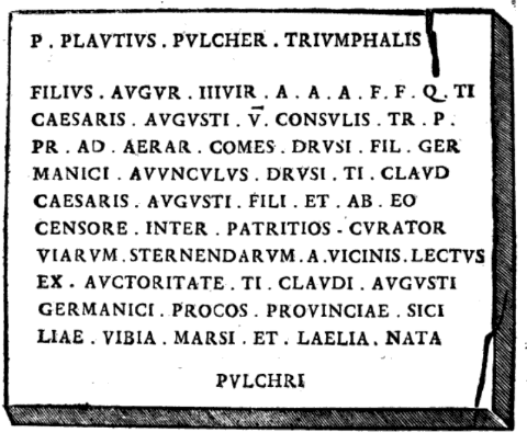 Tavola 3 - Mausoleo dei Plautii